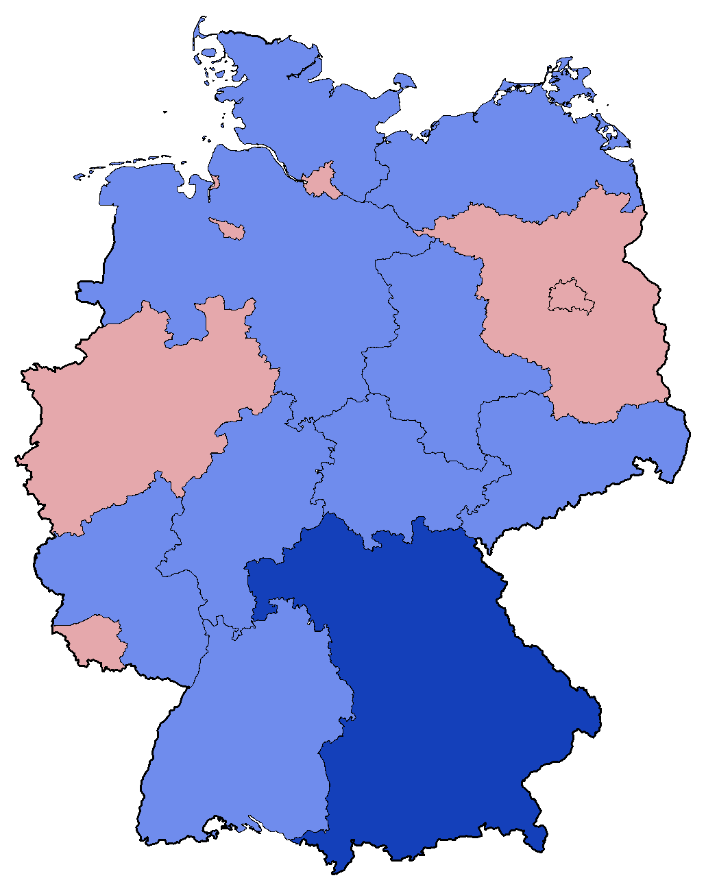 Electoral map showing the party list vote results (Zweitstimmen) of the 1994 Bundestag (German parliament) elections by state. Dark blue denotes states where CDU/CSU had the absolute majority of the votes; lighter blue denotes states where CDU/CSU had the plurality of votes; and pink denotes states where the SPD had the plurality of the votes.